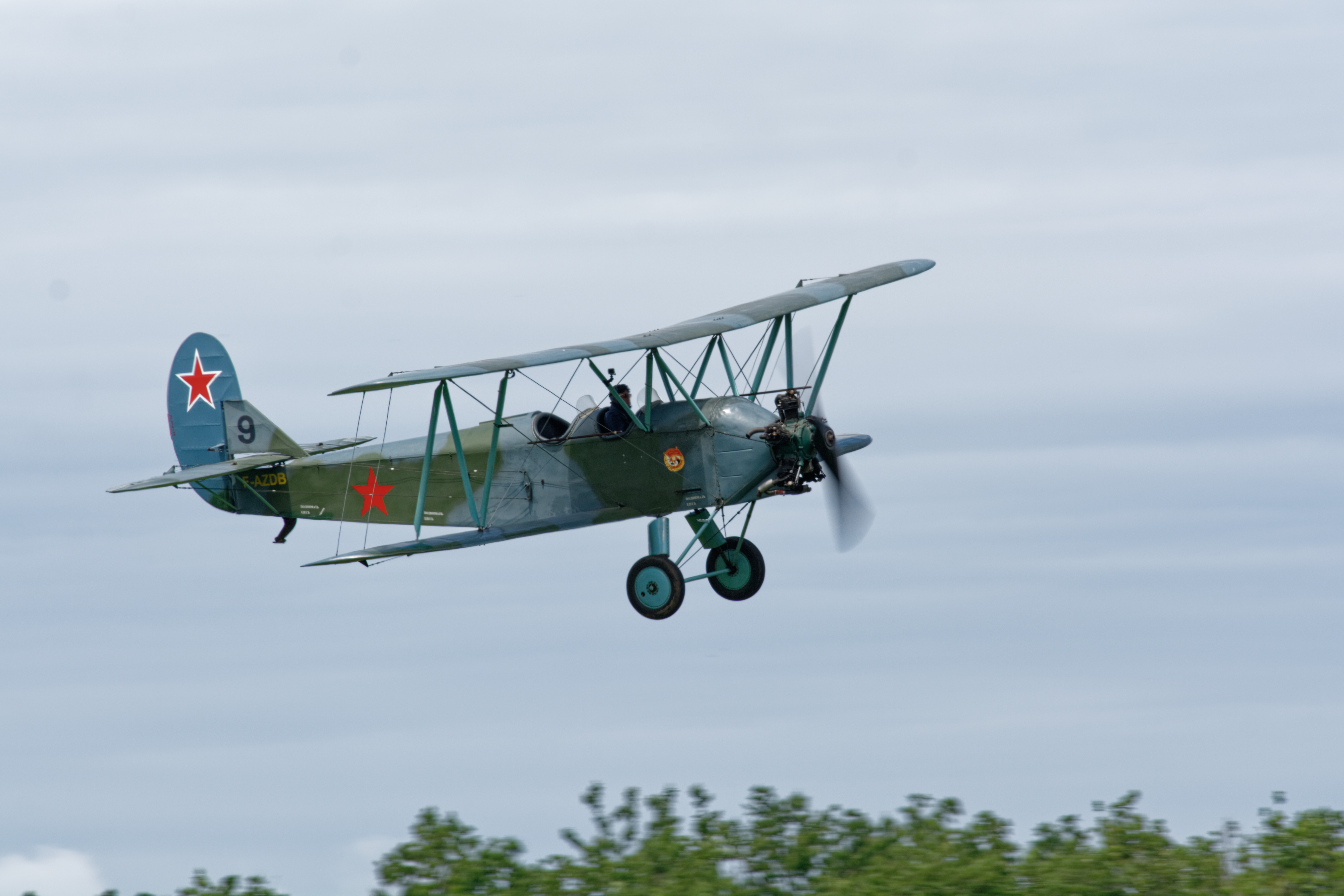 Polikarpov Po-2, Ferté Airshow 2019